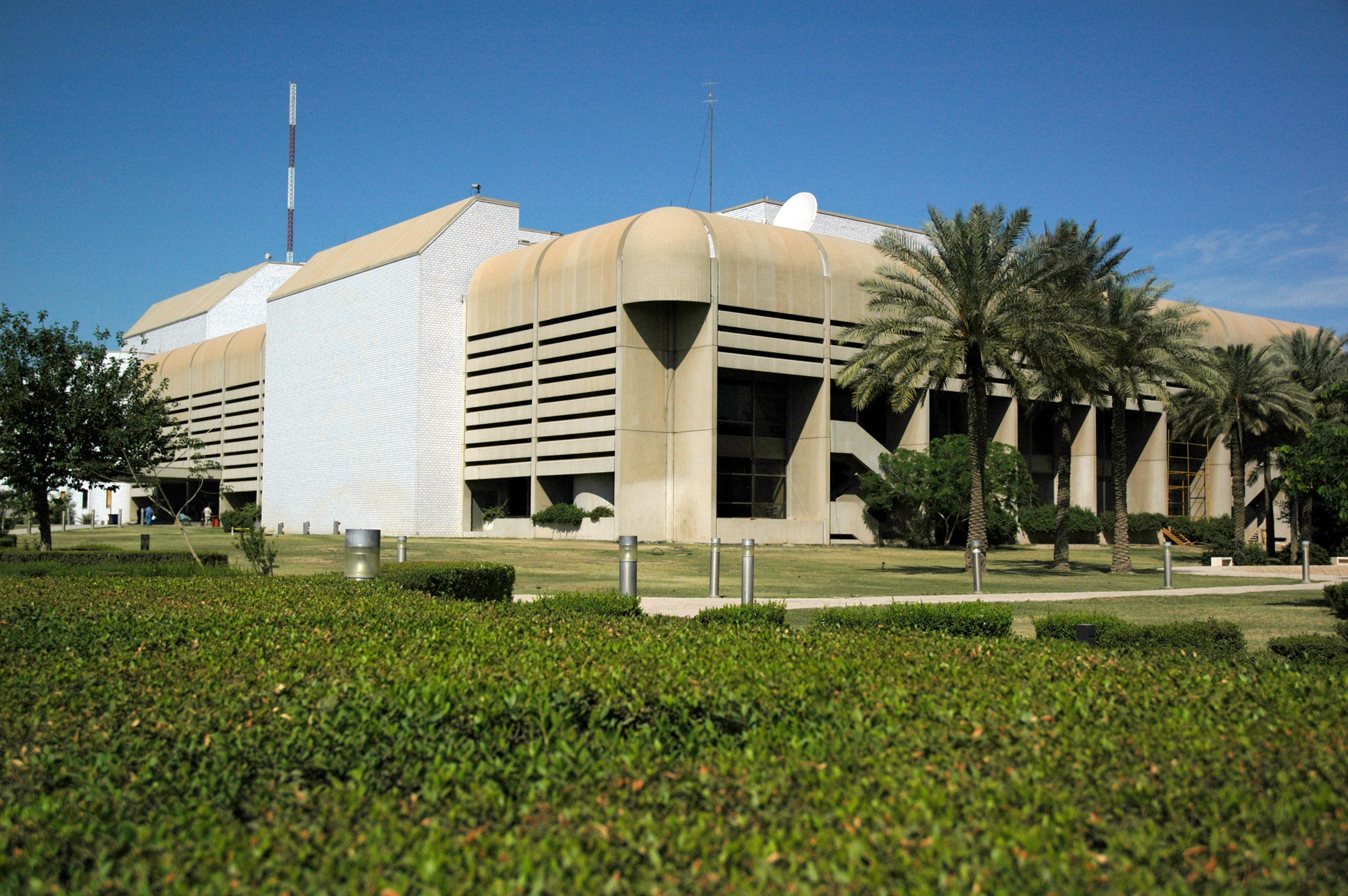 The Baghdad Convention Center, where the Council of Representatives of Iraq meets.